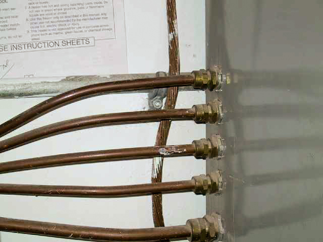 MI Cable, or Mineral-insulated copper clad cables. Each copper-sheathed cable carries three phase power in a 480 V circuit. Mineral-insulated cables are attached to the panelboard with special fittings. Behind the cables a bare stranded copper bonding conductor can be seen, which bonds electrical equipment to earth ground. Taken June 2001, E.B. Campbell dam, Saskatchewan, Canada released to the public domain by English Wikipedia User Wtshymanski with permission to go on here stated here